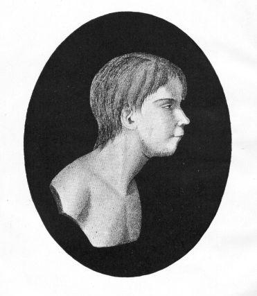 Victor of Aveyron